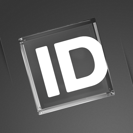 ID Logo